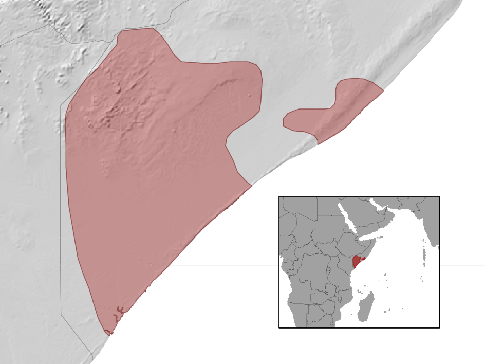 geographic distribution of Lygosoma productum